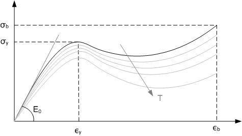 temperature dependence of thermoplastics author:philip poppe